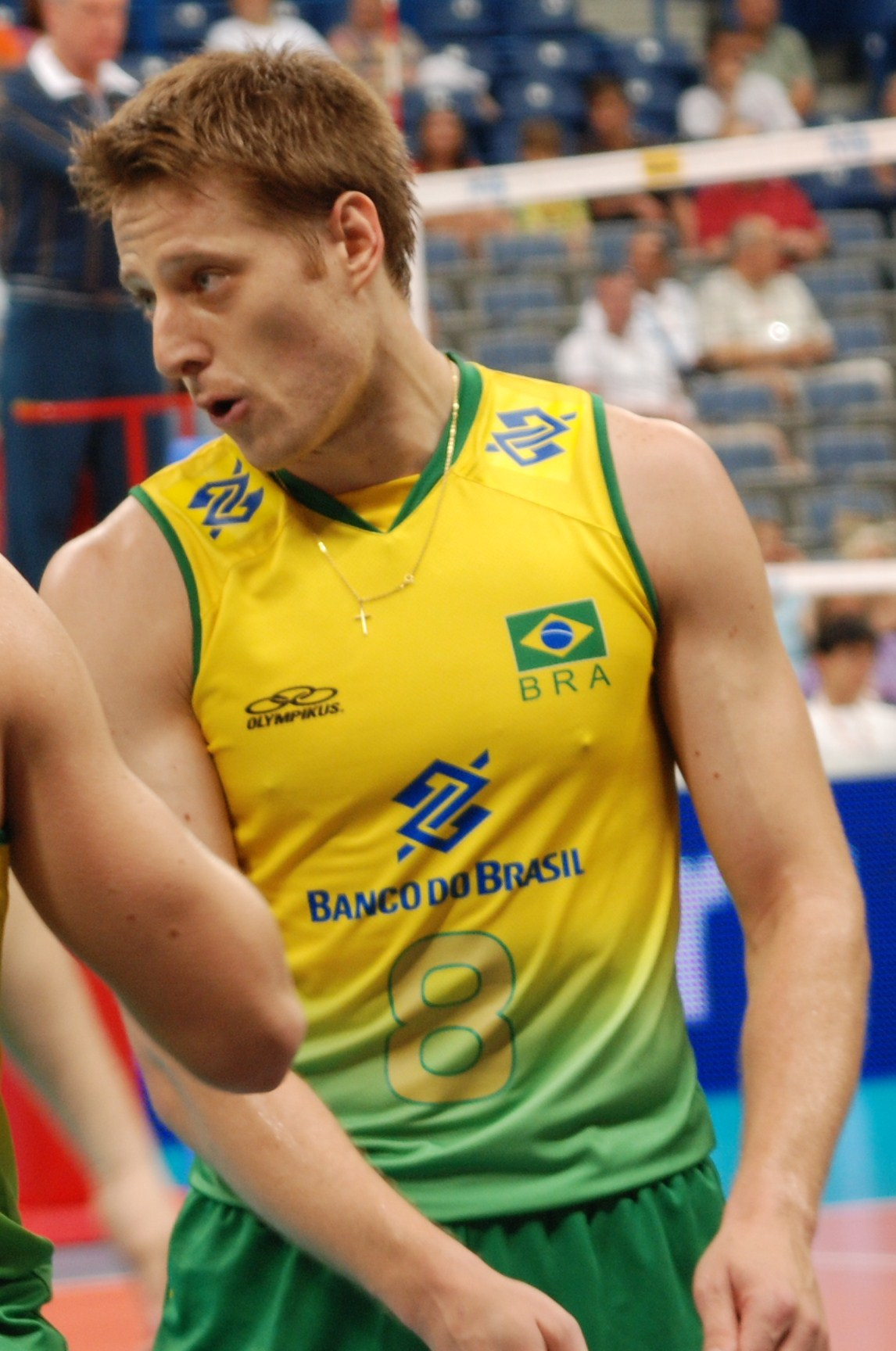 Brazilian volleyball player Murilo Endres